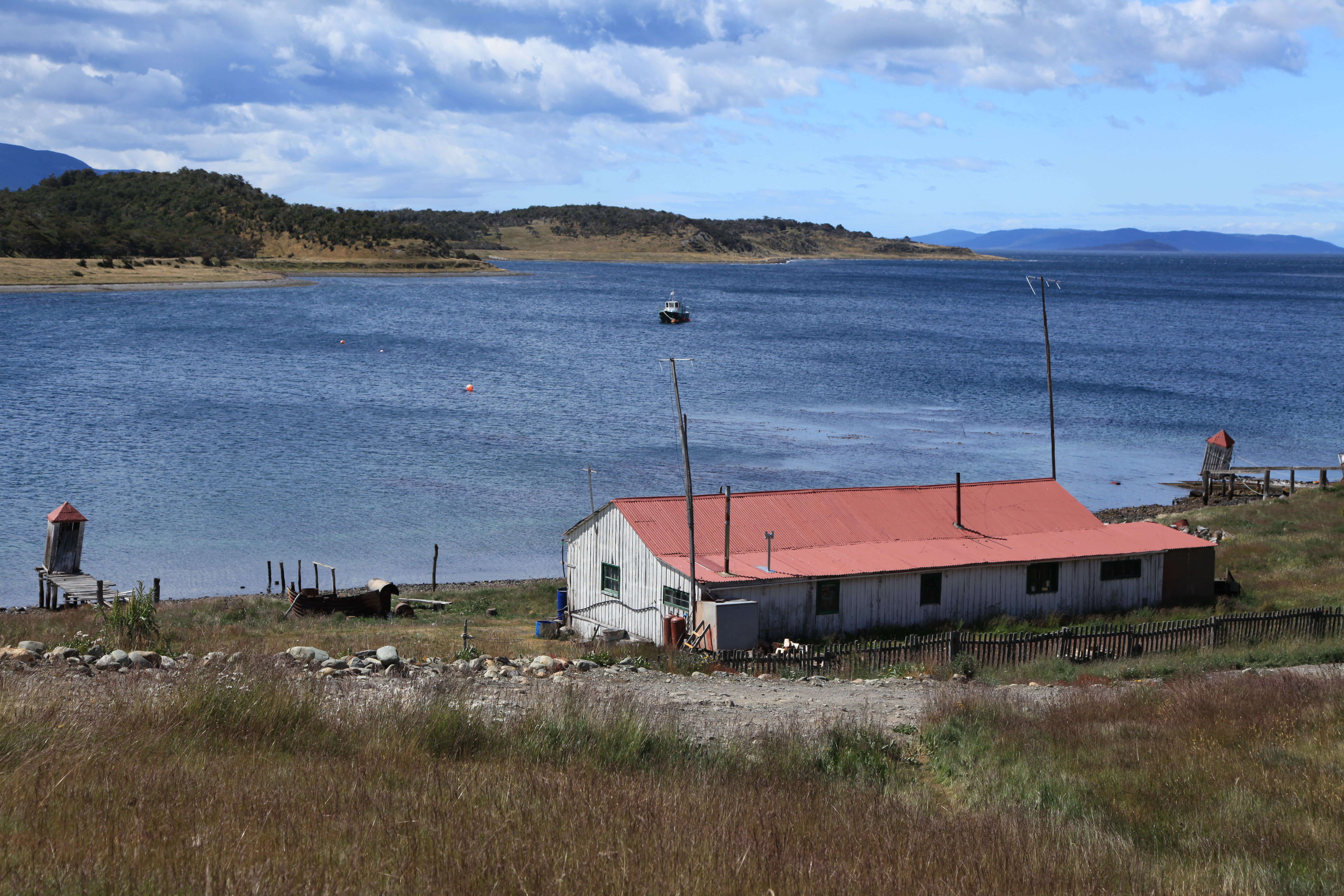 Historic ranch on the Beagle Channel in Tierra del Fuego, Argentina.